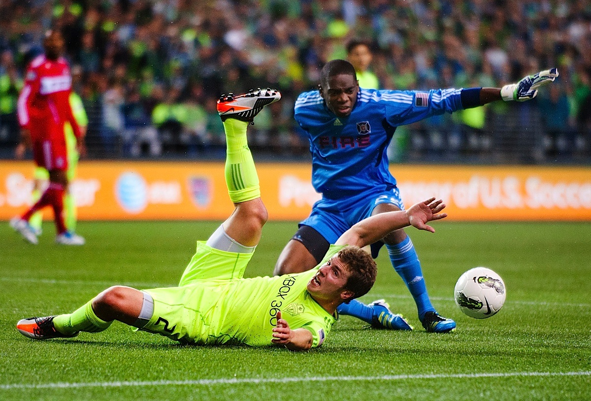 Chicago Fire goalkeeper Sean Johnson makes a save over Seattle Sounders FC forward Mike Fucito in the first half of the 2011 Lamar Hunt U.S. Open Cup final at CenturyLink Field in Seattle, WA.